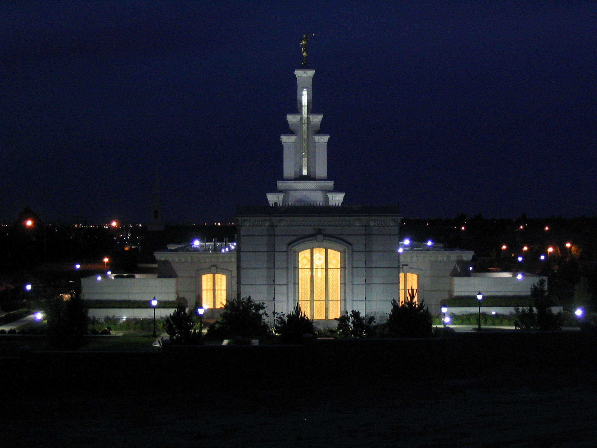 The Columbia River Washington Temple of The Church of Jesus Christ of Latter-day Saints at night.